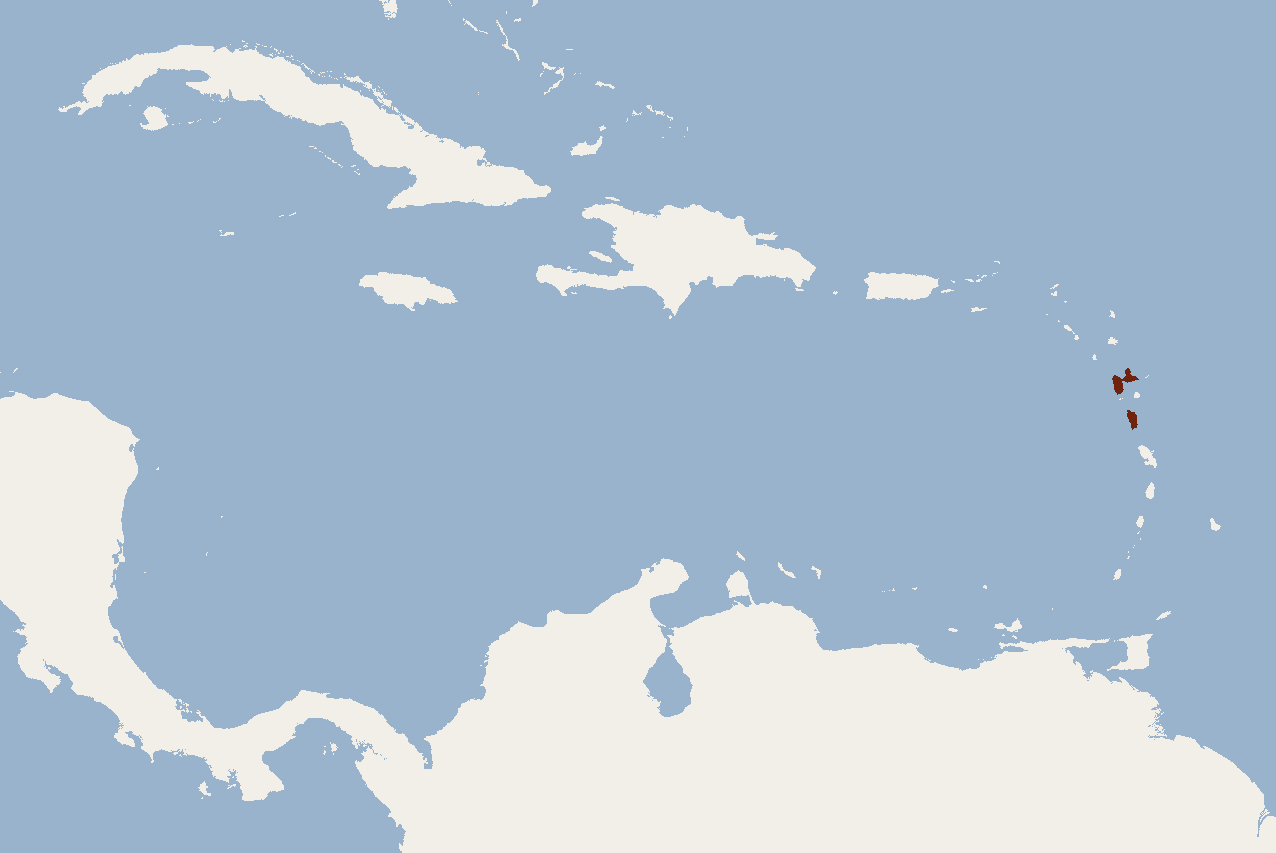 Geographical distribution of Myotis according to Museum specimens